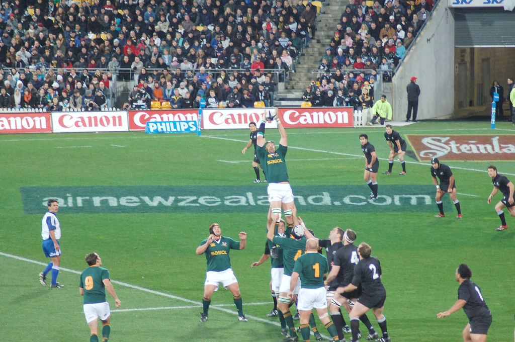 The South Africans (green) secure a line-out against New Zealand in a 2006 Tri Nations match in Wellington. Picture catching the ball is lock, Victor Matfield. The All Blacks won the match.